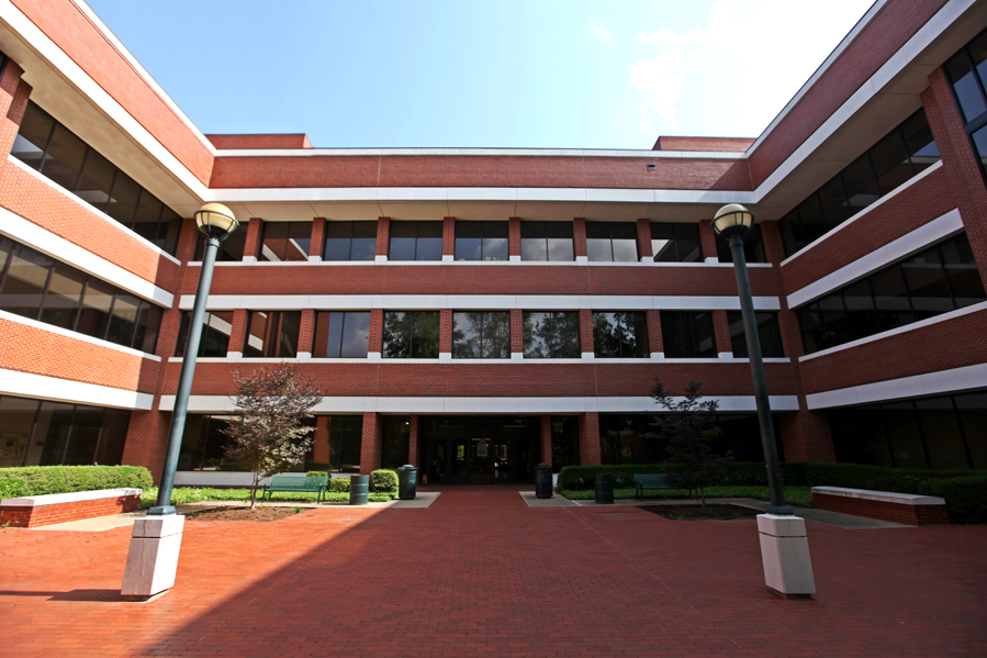 University of Arkansas - Fort Smith